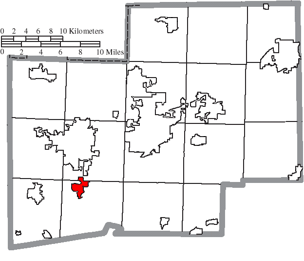 Map of the municipal and township boundaries of Stark County, Ohio, United States, as of the 2000 census, with the location of the village of Navarre highlighted. Township borders are shown only in unincorporated areas in order to differentiate incorporated and unincorporated areas more clearly.